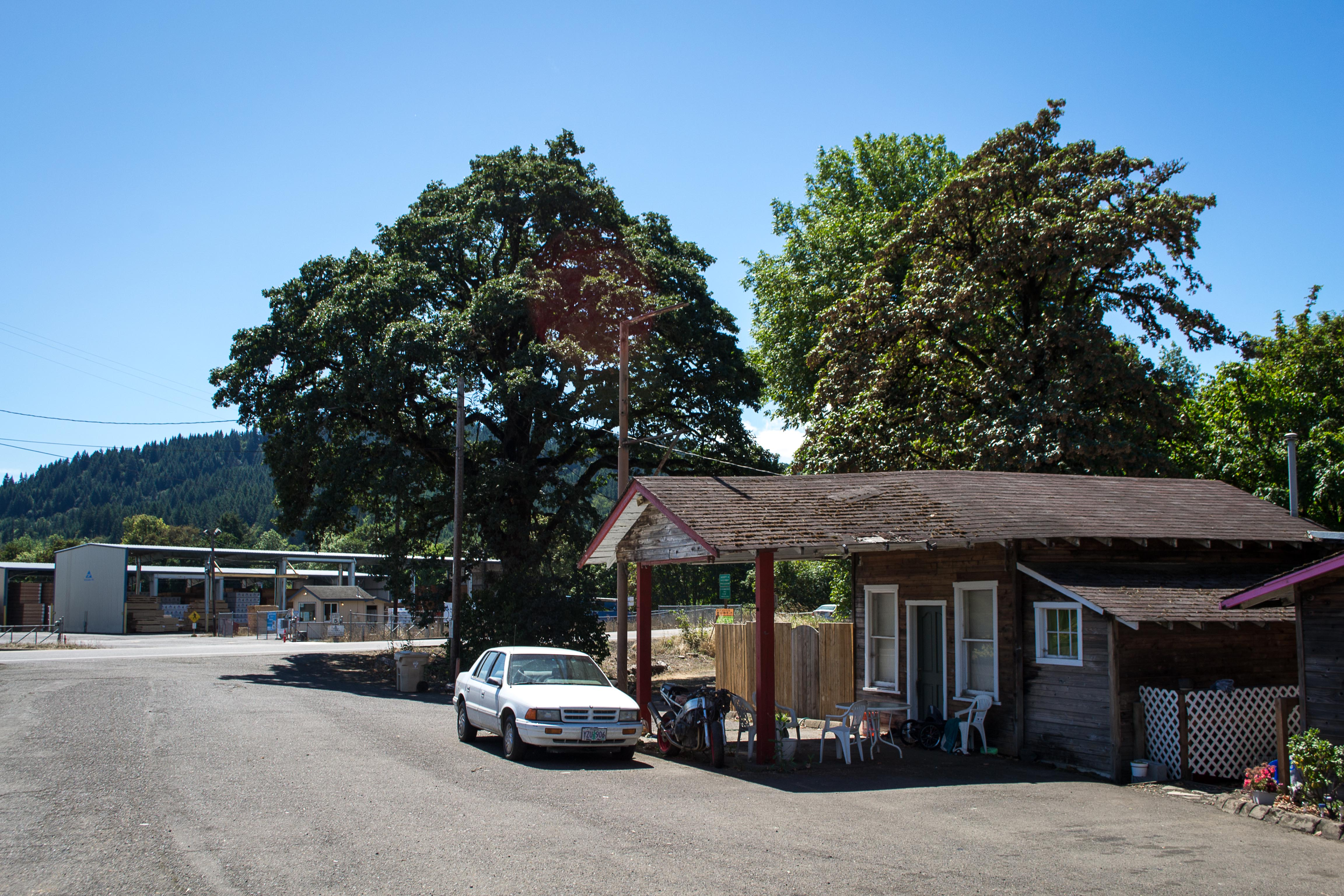 The former general store in Flynn, Oregon